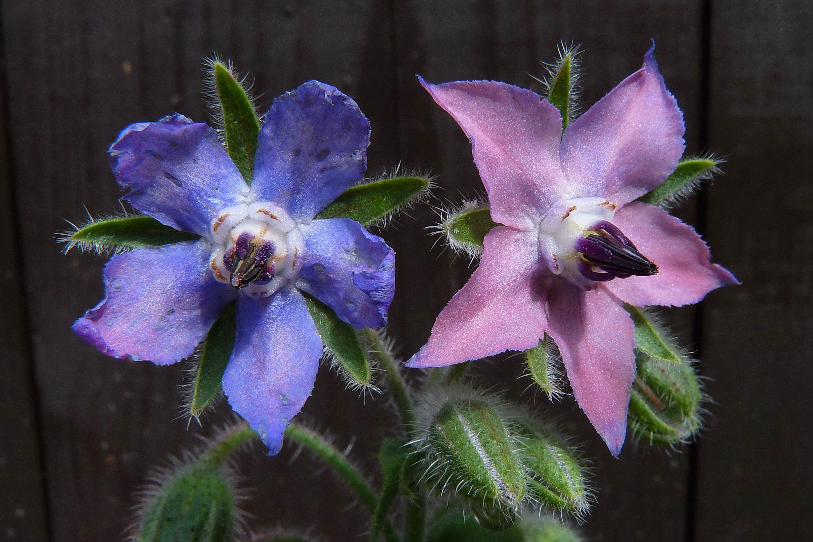 Two blossoms of borage, the younger one is pink, the elder one blue